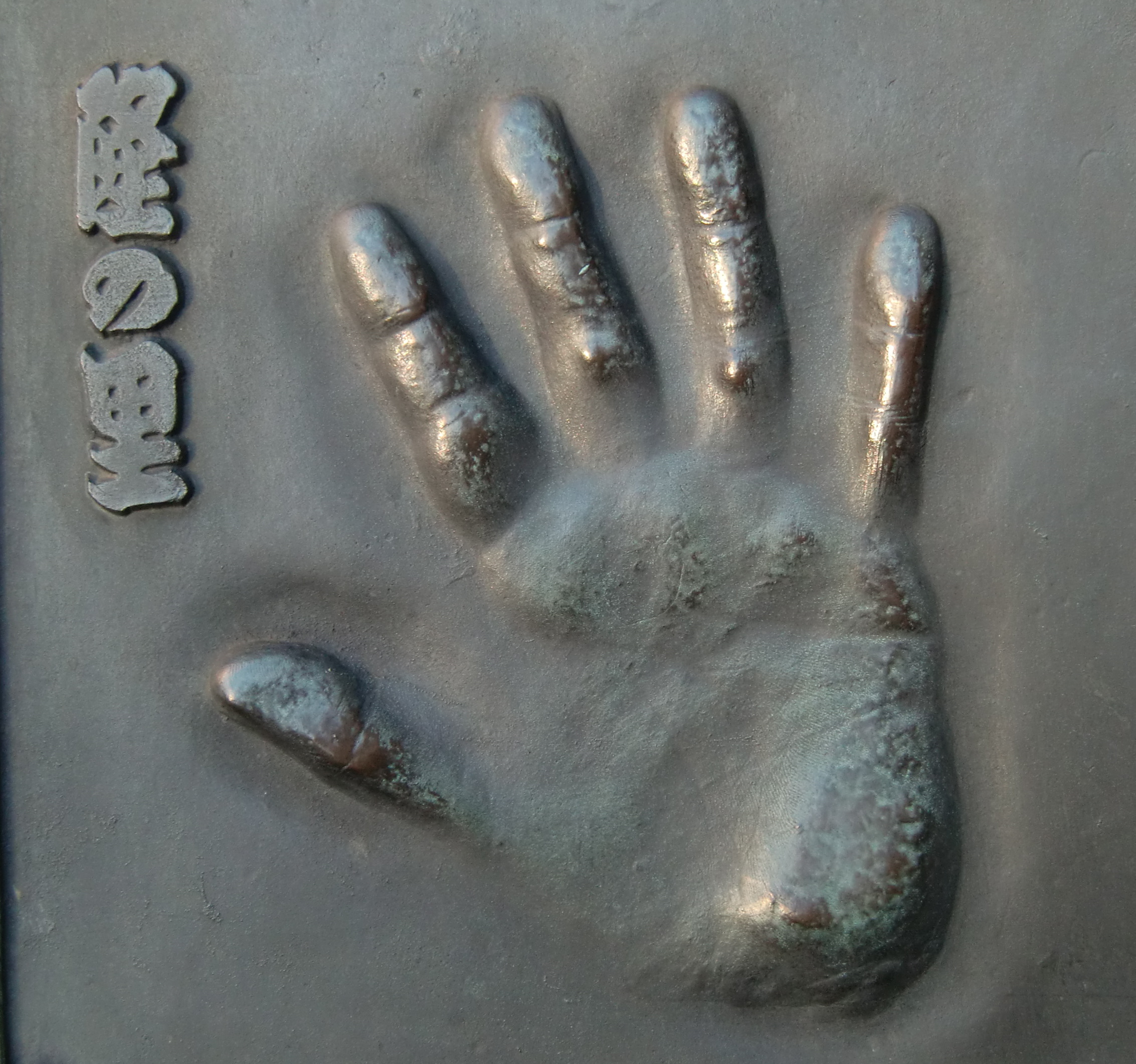 photo from public monument in Ryogoku area